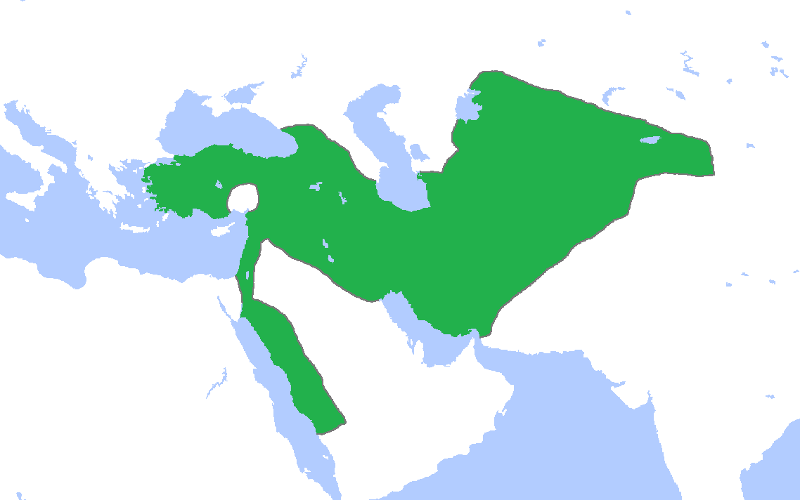 Locator map of the Seljuq Empire, c. 1071. (Partially based on Atlas of World History (2007) - The World 1000-1200, map)